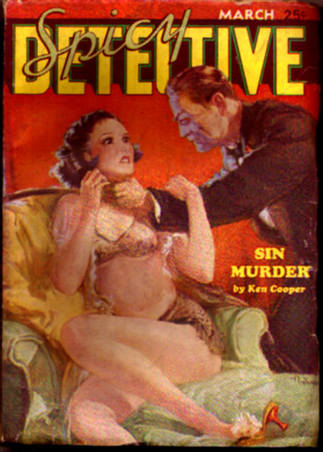 Cover of the pulp magazine Spicy Detective Stories (March 1935, vol. 2, no. 5) featuring "Sin Murder" by Ken Cooper.